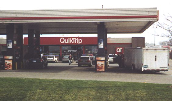 The exterior of a QuikTrip convenience store in Des Moines